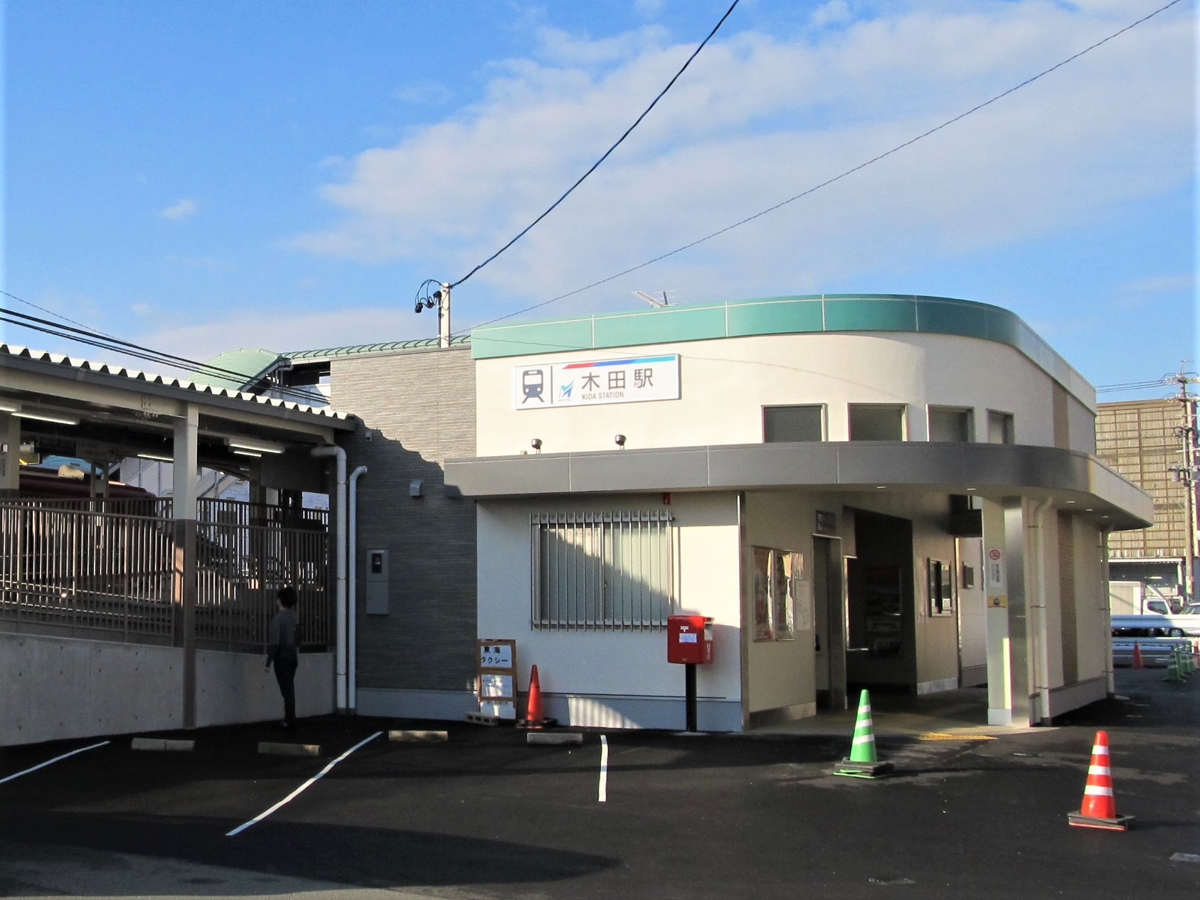 Nagoya Railroad Tsushima Line Kida Station North Gate